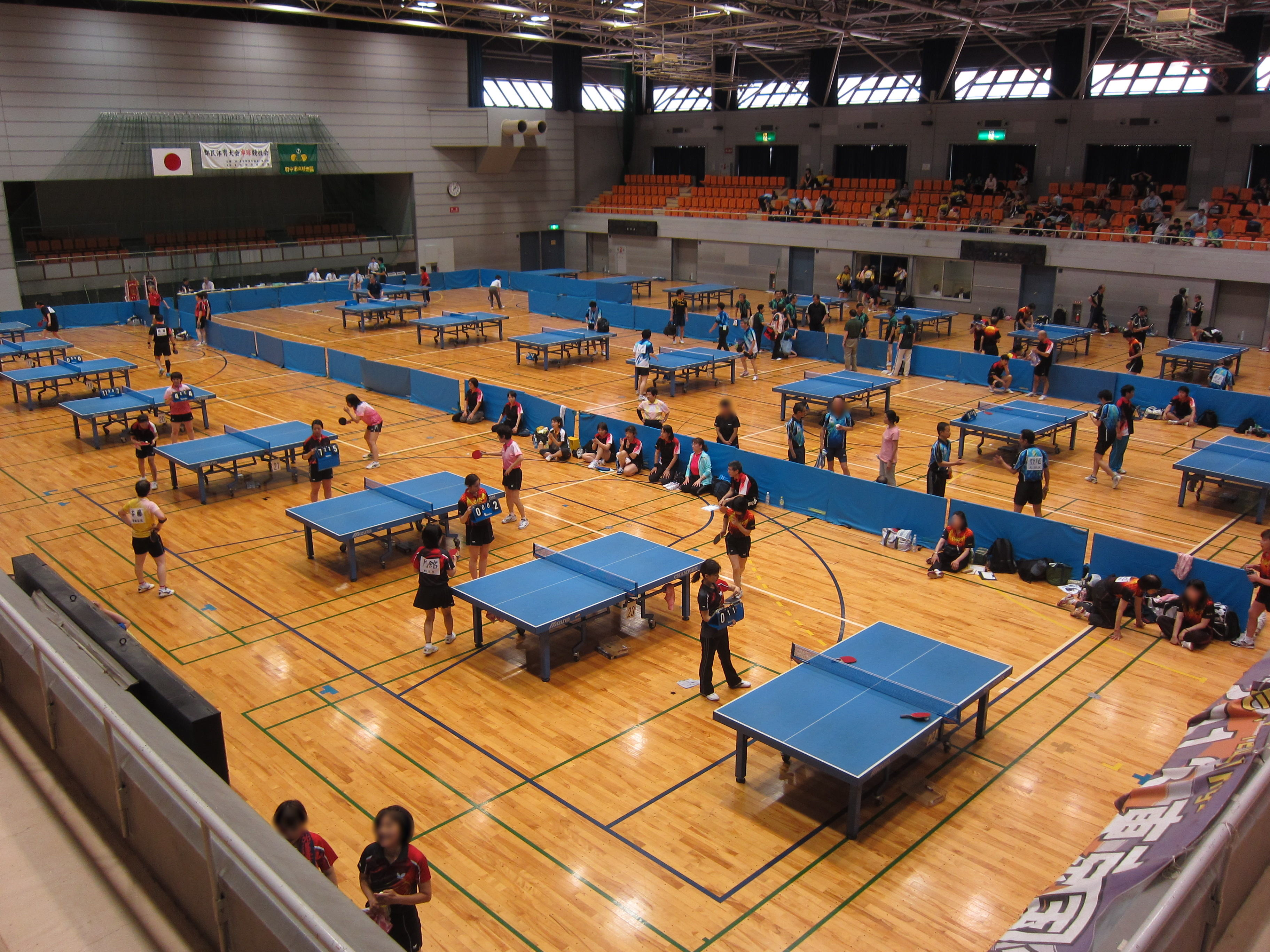 Kyodonomori gymnasium